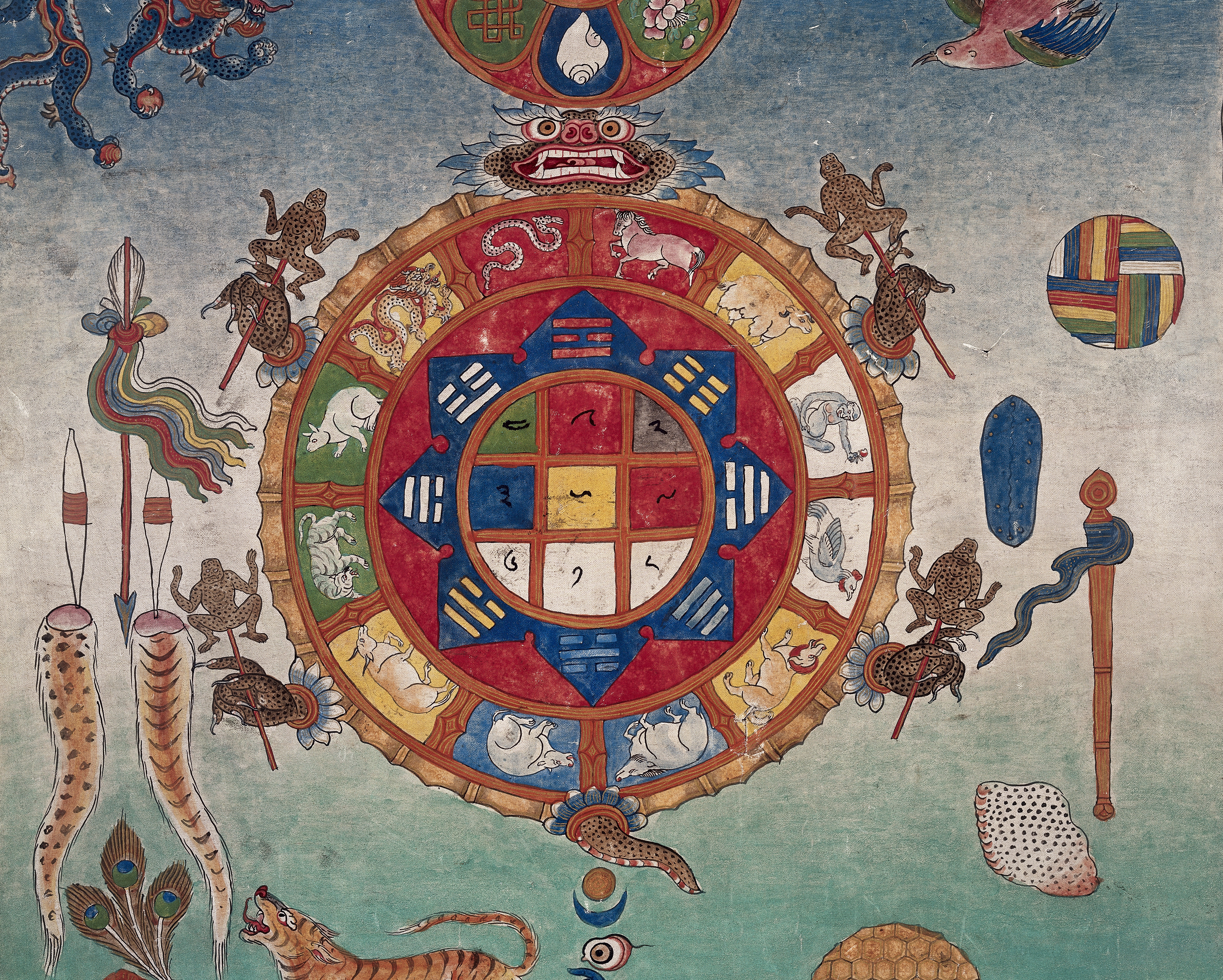 Or Tibetan 114 (cropped). Chart indicating good and bad bloodletting days and when to guard against demons. Detail: The chart contains a sme ba (9 figures symbolising the elements in geomancy) in the centre with the Chinese pa-kua (8 trigrams) surrounded by 12 animals of months and years. Below this, symbols of 7 days of the week. Asian Collection Keywords: Astronomy; Animals; Chinese; Asian Continental Ancestry Group; Divination; beast; Religion; Astrology; Medicine; Calendar; Mythology; Monsters; Creature